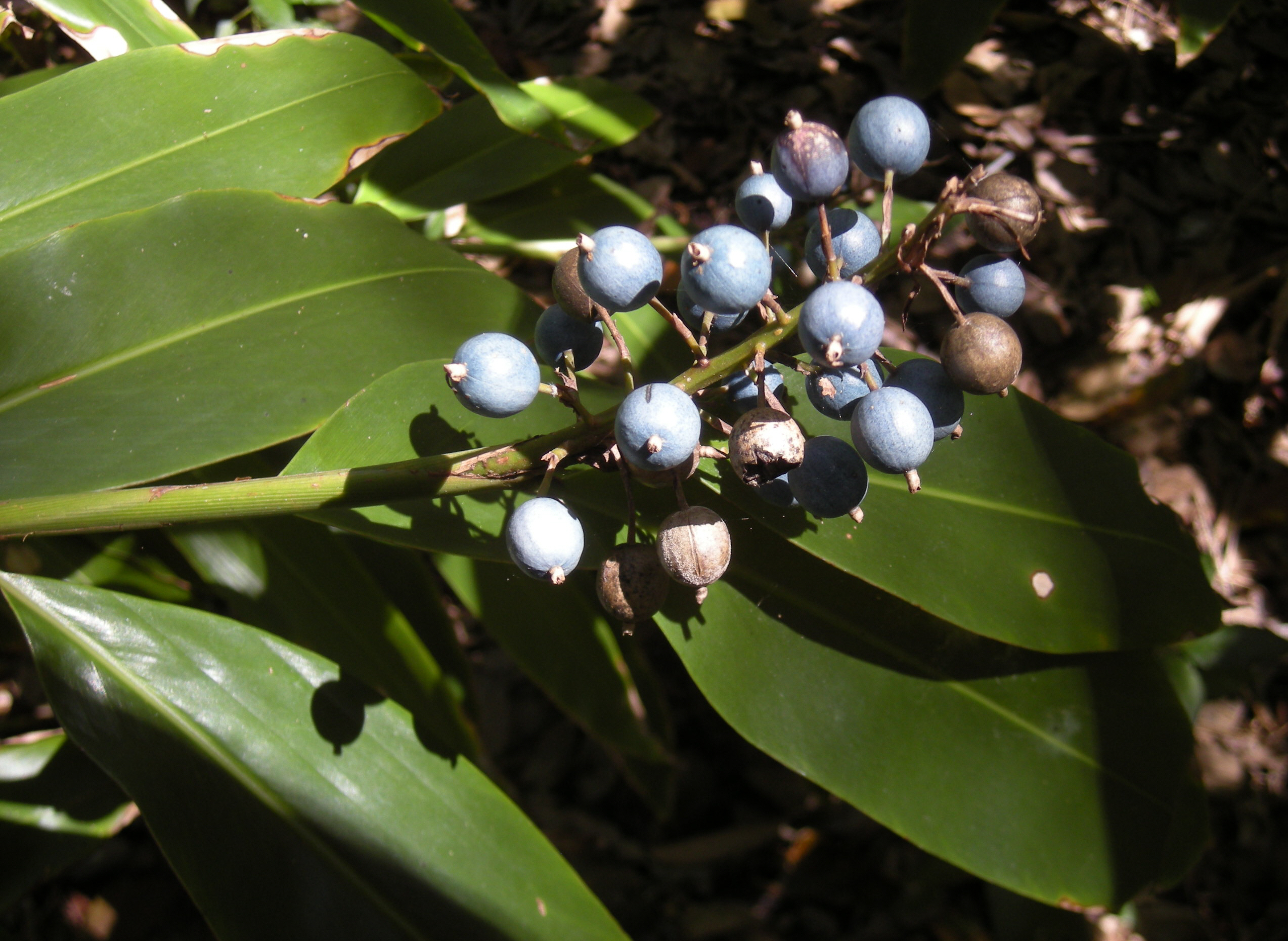 Alpinia caerulea fruit